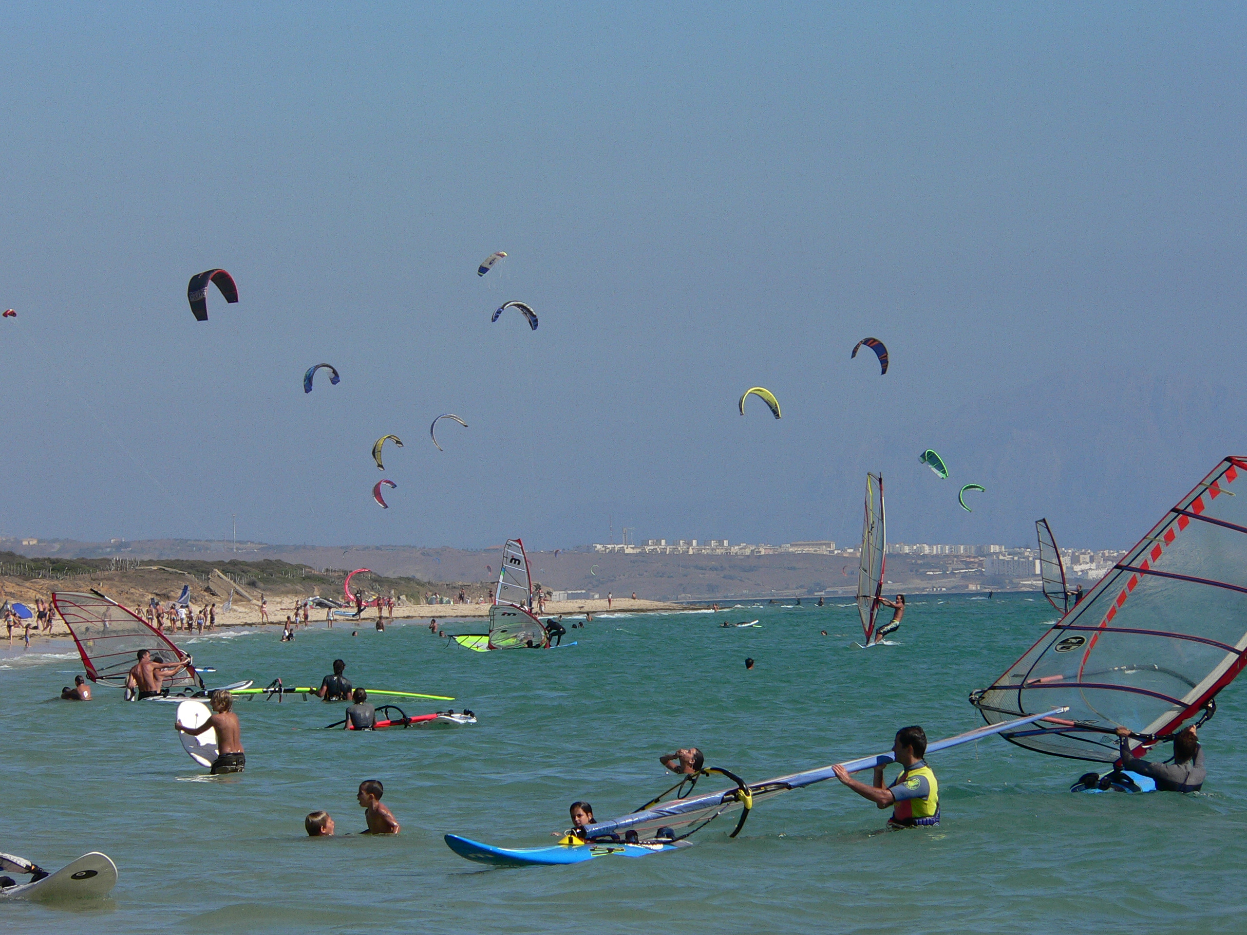 Description: Windsurf and kitesurf Subject: Windsurfing and kitesurfing Beach : Punta Paloma City : Tarifa Country : Spain Photographer: © Manuel González Olaechea y Franco Shot date : August, 26th, 2005